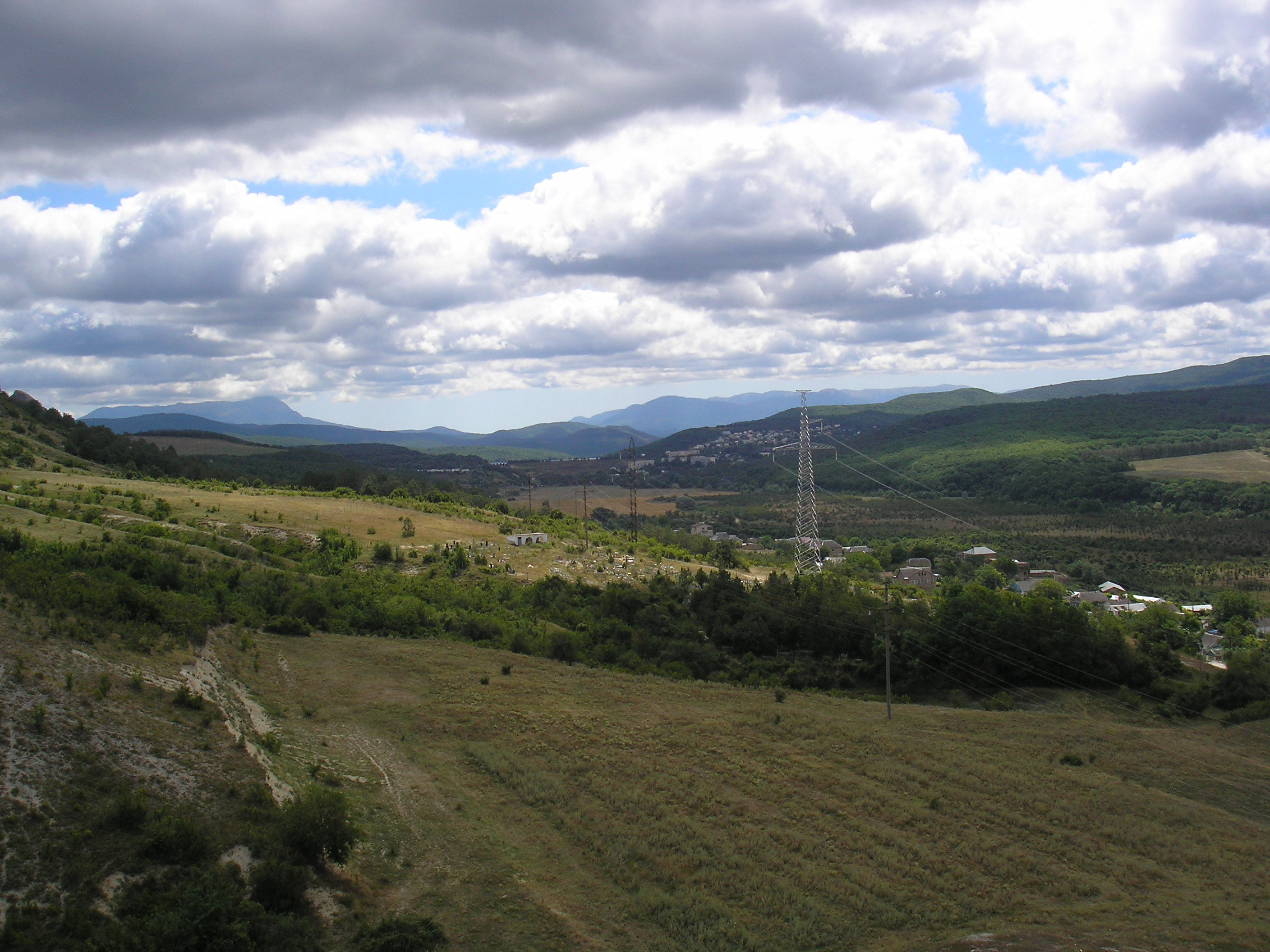 Abolished village Kukurekovka (village Malinovka), Bakhchisaray district, Crimea